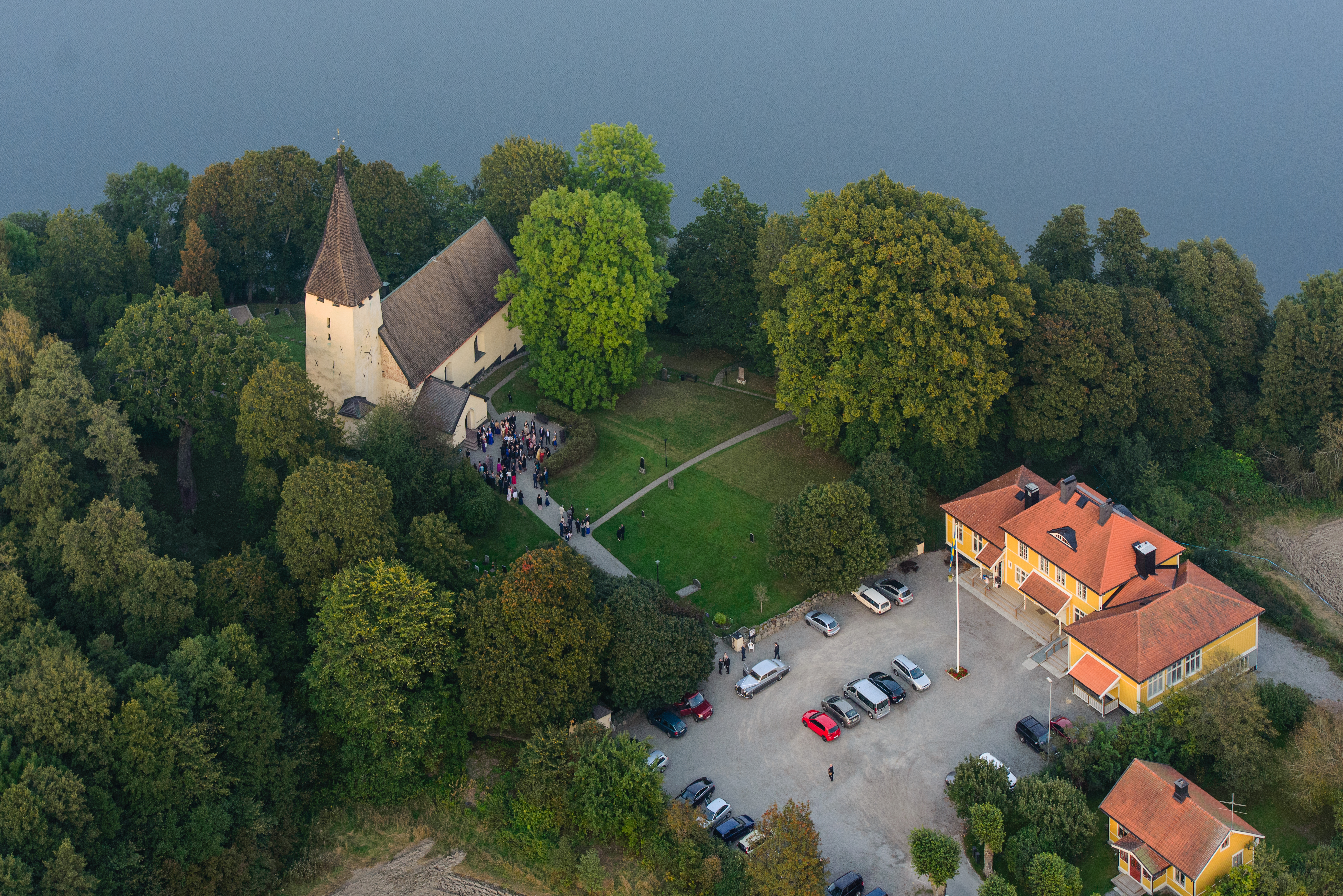 Salems kyrka (church).